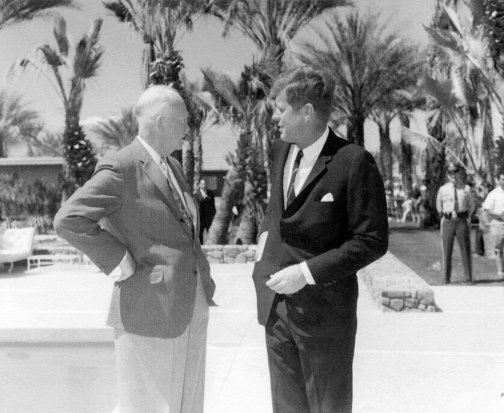 Former president Eisenhower with President Kennedy on retreat in 1962